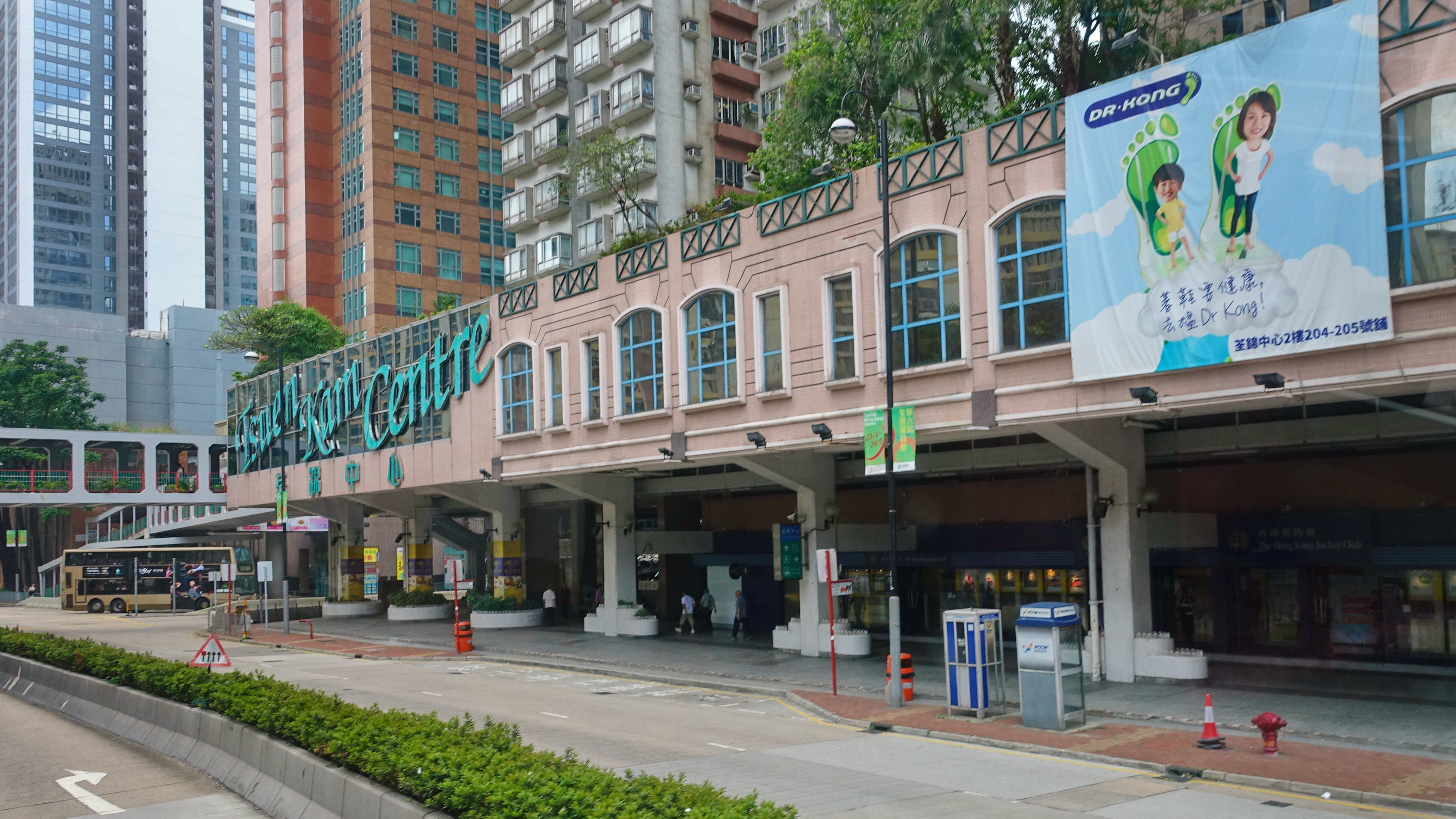 Tsuen Kam Centre, Hong Kong.